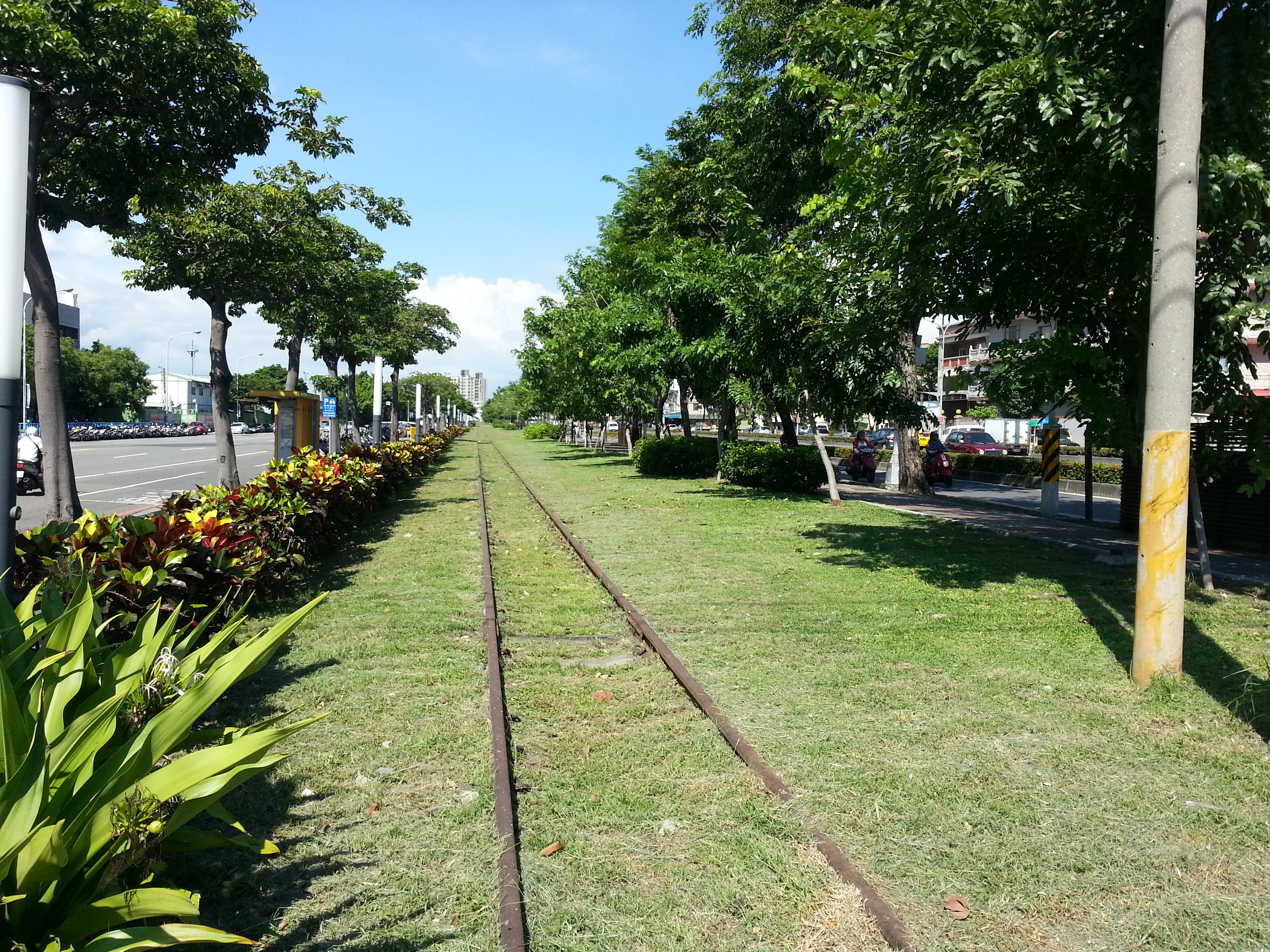 Future Kaohsiung Circular Line C4 station in July 2013